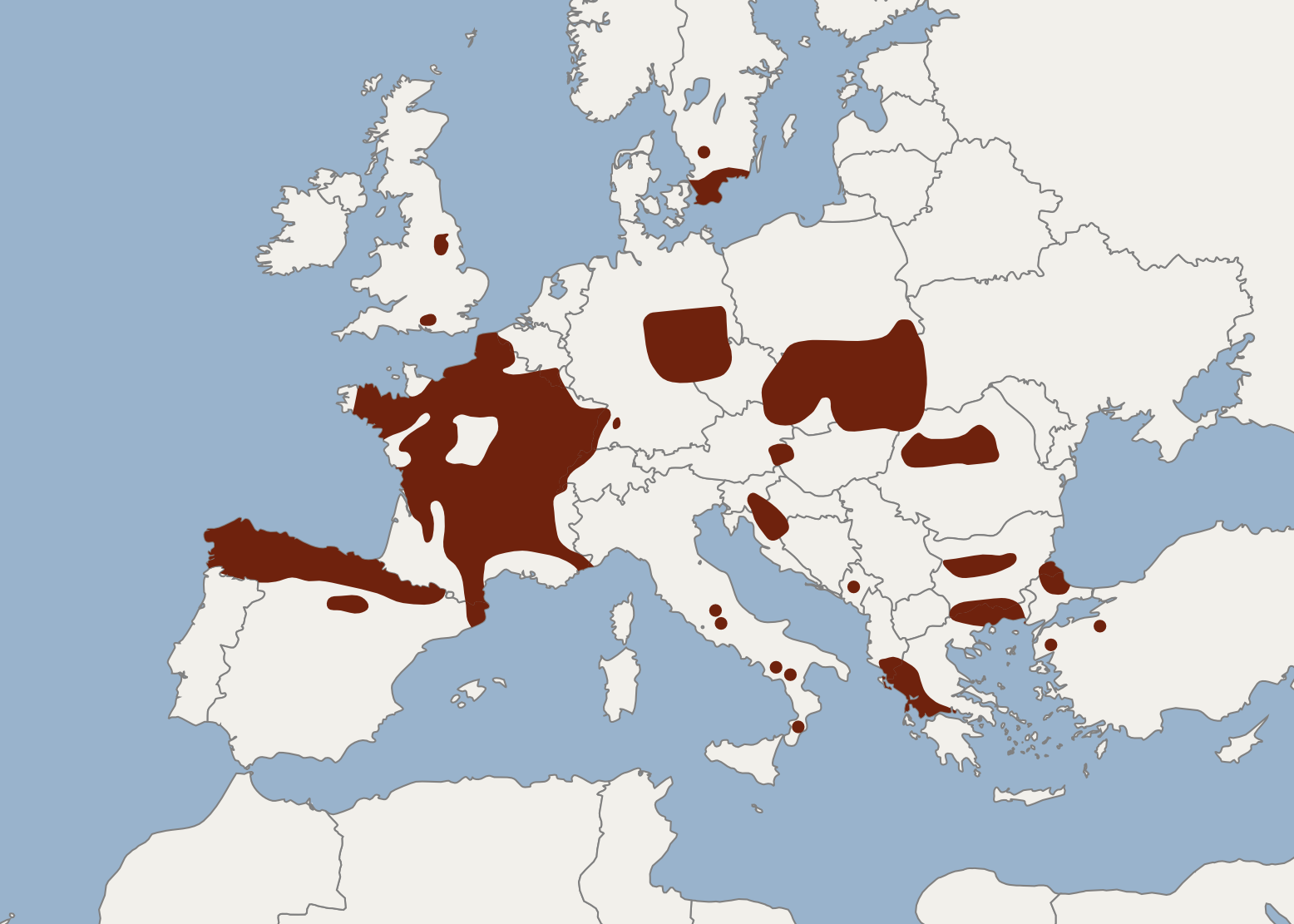 According to Bayerisches Landesamt für Umwelt, Verbreitung und Ökologie der Nymphenfledermaus (Fachtagung des LfU am 22. März 2014)